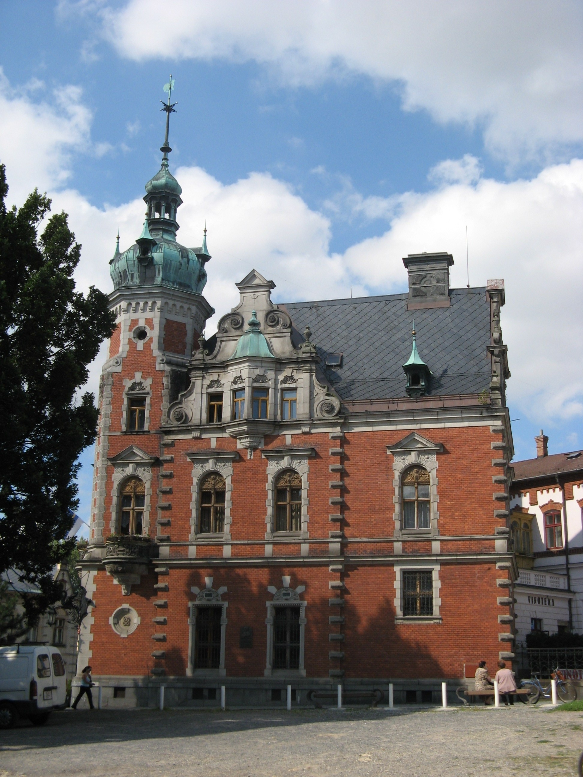 Ottendorfer´s Hause (1892), Svitavy - Czech republic